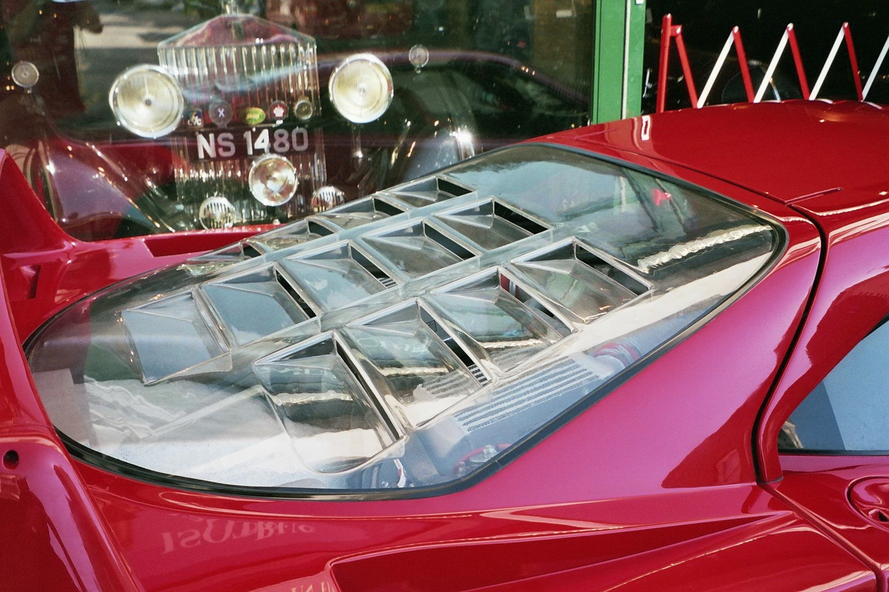 Vintage car sold at Coys of Kensington, London